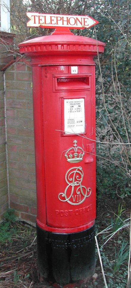 Edward VII post box with rare Telephone Direction sign at Colne Valley Postal History Museum, Halstead, Essex Photographed Autumn 2006 at 09:48, 22 March 2007 (UTC) by Kitmaster on Coolpix 885